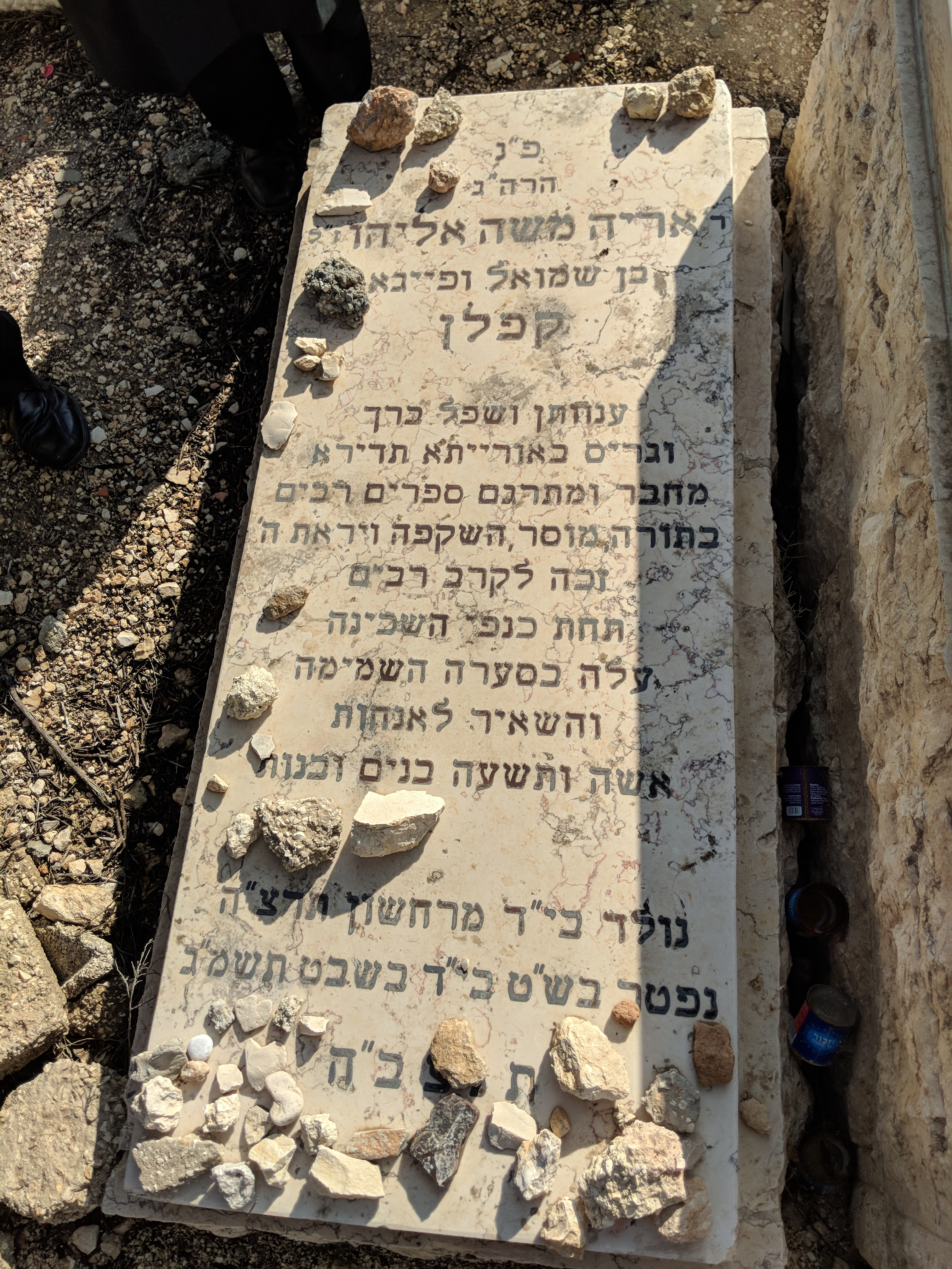 Gravesite of Rabbi Aryeh Kaplan